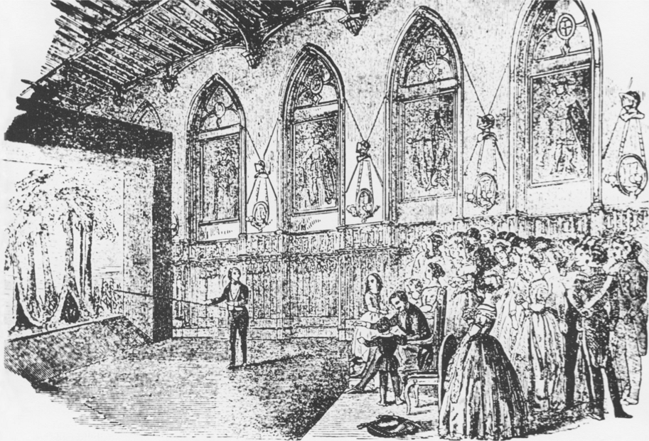 "John Banvard presenting his panorama to Queen Victoria," Windsor Castle, spring, 1849